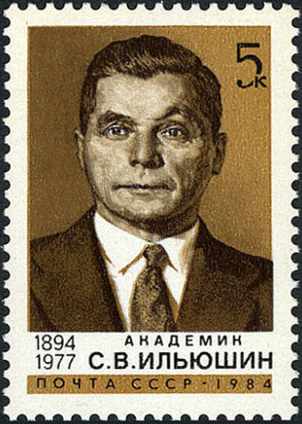 1984 USSR Stamp depicting aircraft designer Sergey Vladimirovich Ilyushin